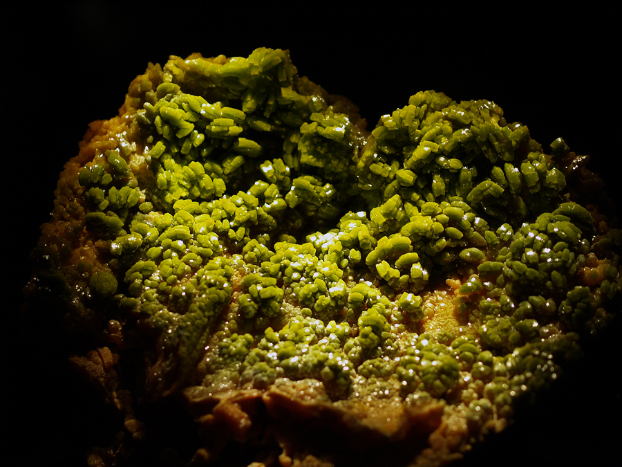 Pyromorphite Hexagonal lead phosphate chloride Bunker Hill Mine, Kellogg, Shoshone County, Idaho, USA HMNS 5619 Wikipedia Loves Art at the Houston Museum of Natural Science This photo of item # 5619 at the Houston Museum of Natural Science was contributed under the team name "Assignment_Houston_One" as part of the Wikipedia Loves Art project in February 2009. Houston Museum of Natural Science The original photograph on Flickr was taken by sulla55—please add a comment to the original Flickr page whenever a use has been made on Wikipedia or another project. Project galleries on Flickr: this institution, this team